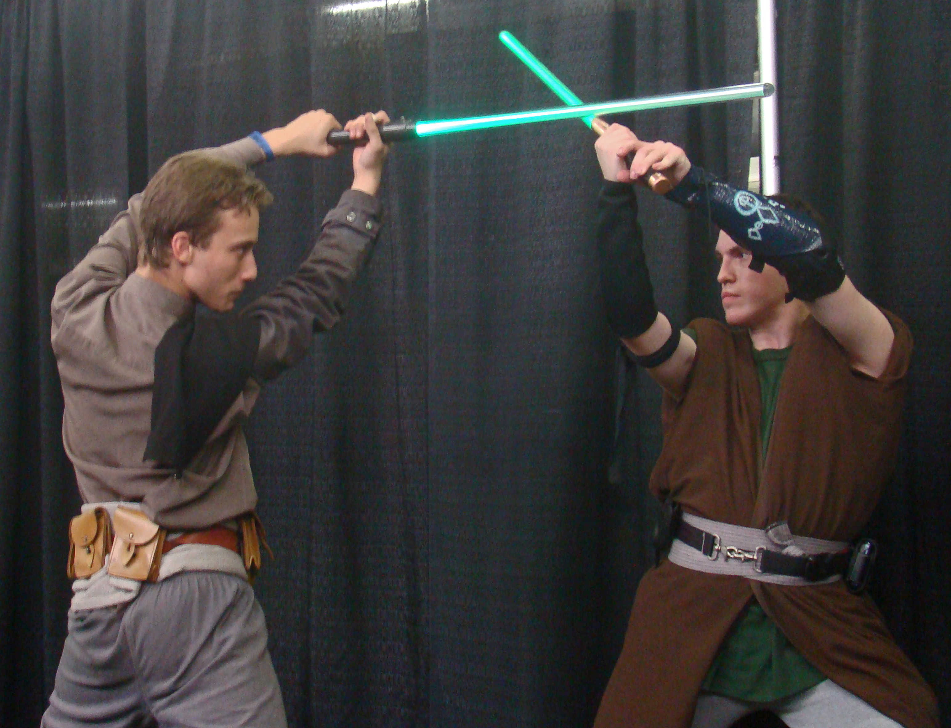 Two fellas from New York Jedi dueling with lightsabres, Big Apple Con, Saturday October 17, 2009. New York City. A big thanks for everyone at the Con who let me take their picture. If you see yourself in my pictures let me know at: loser [at] istolethe [dot] tv.